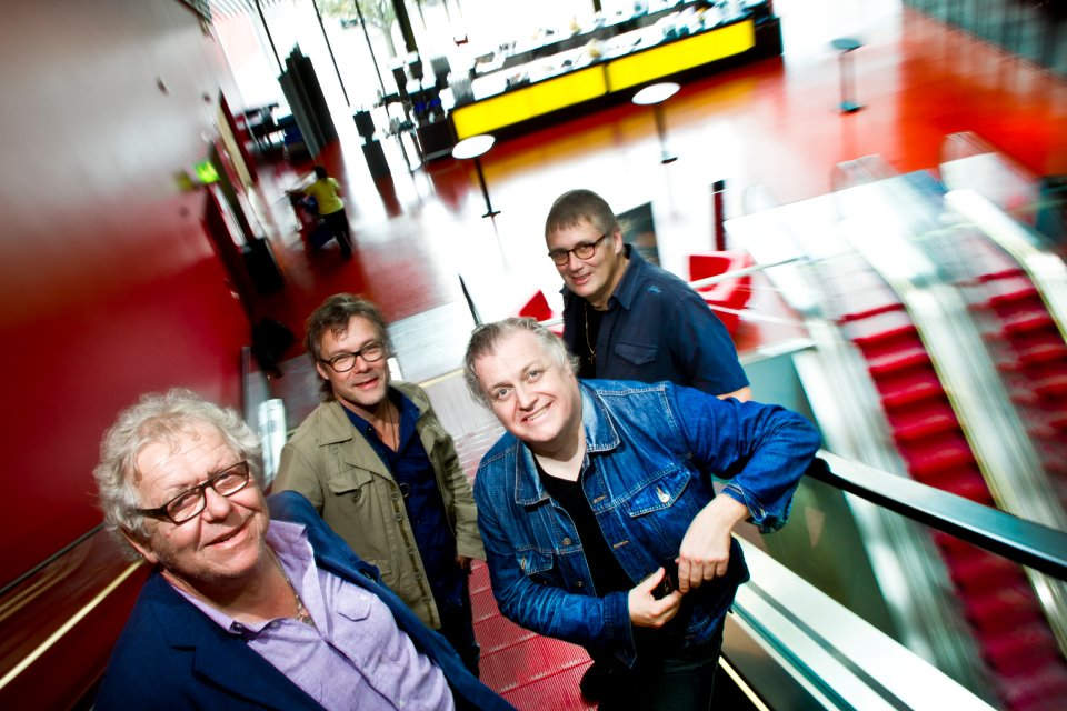 Trio X med gästen Claes Jansson i UKK.